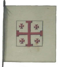 The Colours of Sir Henry Bard's Regiment